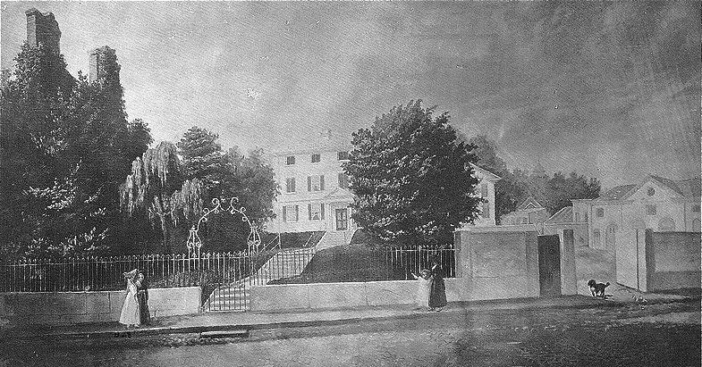 Accession No.: 07_10_000072 Cab. No.: Cab 23.58.1 Title: House and garden of Gardiner Greene, Pemberton Hill Artist: Pratt, Henry Cheever, 1803-1880 Date: 1898 (approximate) Genre: Photographs; Oil paintings Description: Copy photograph from original circa 1843 oil painting by Henry Cheever Pratt (1803-1880), now in the collections of the Boston Athenaeum. The title of the painting is House of Gardiner Greene. BPL Department: Print Department